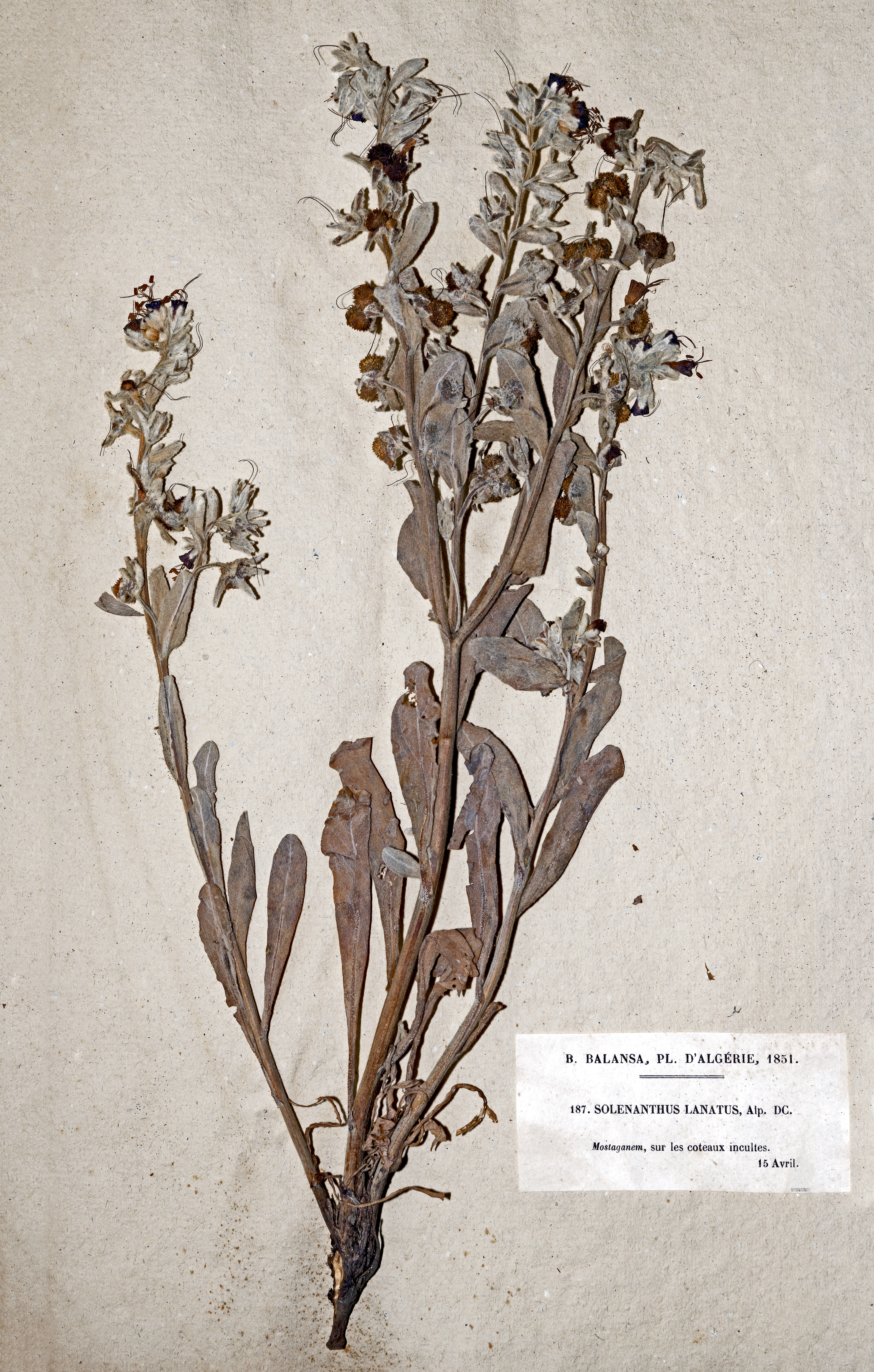 Solenanthus lanatus, Herbarium, collection of Benjamin Balansa 1851.